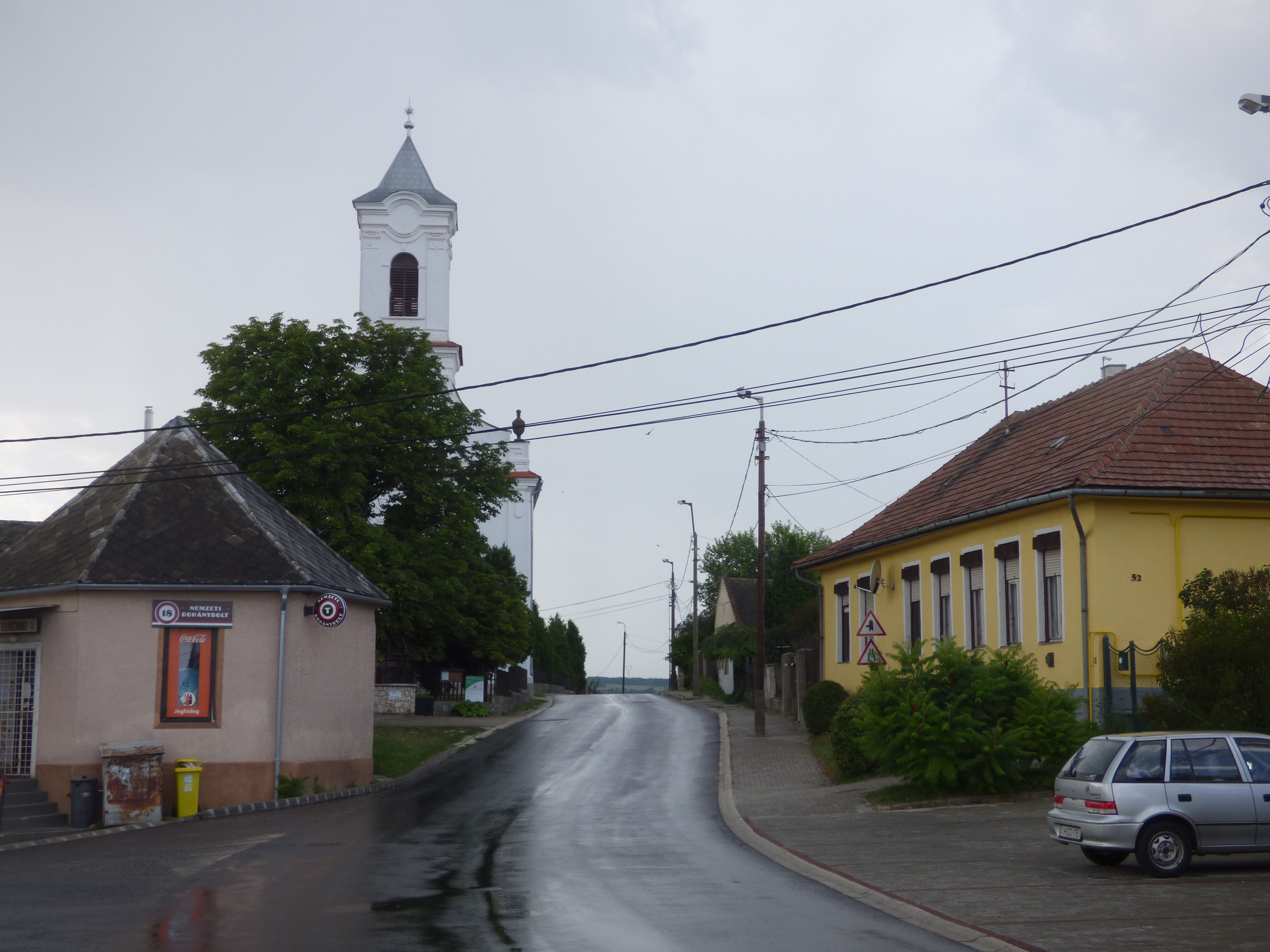 Királyszentistván központja